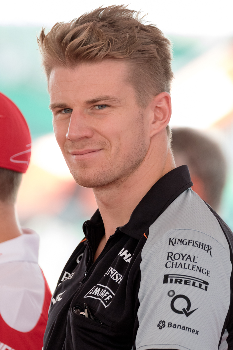 Formula One 2016 Rd.16 Malaysian GP: Nico Hülkenberg (Force India)